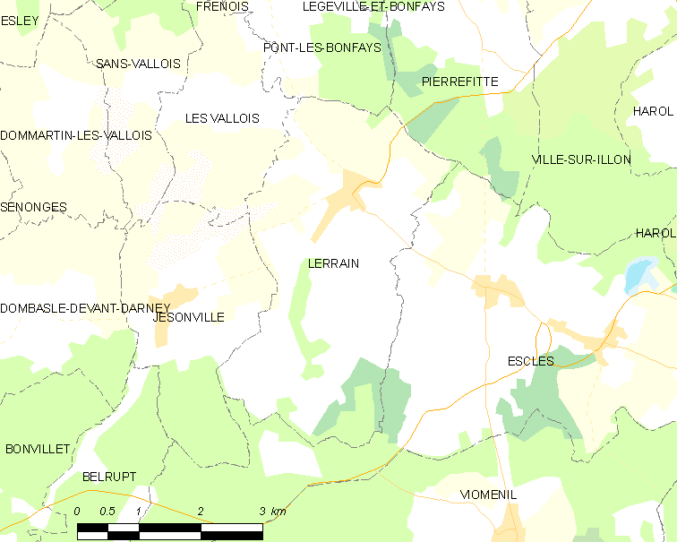 Map of French municipality Lerrain